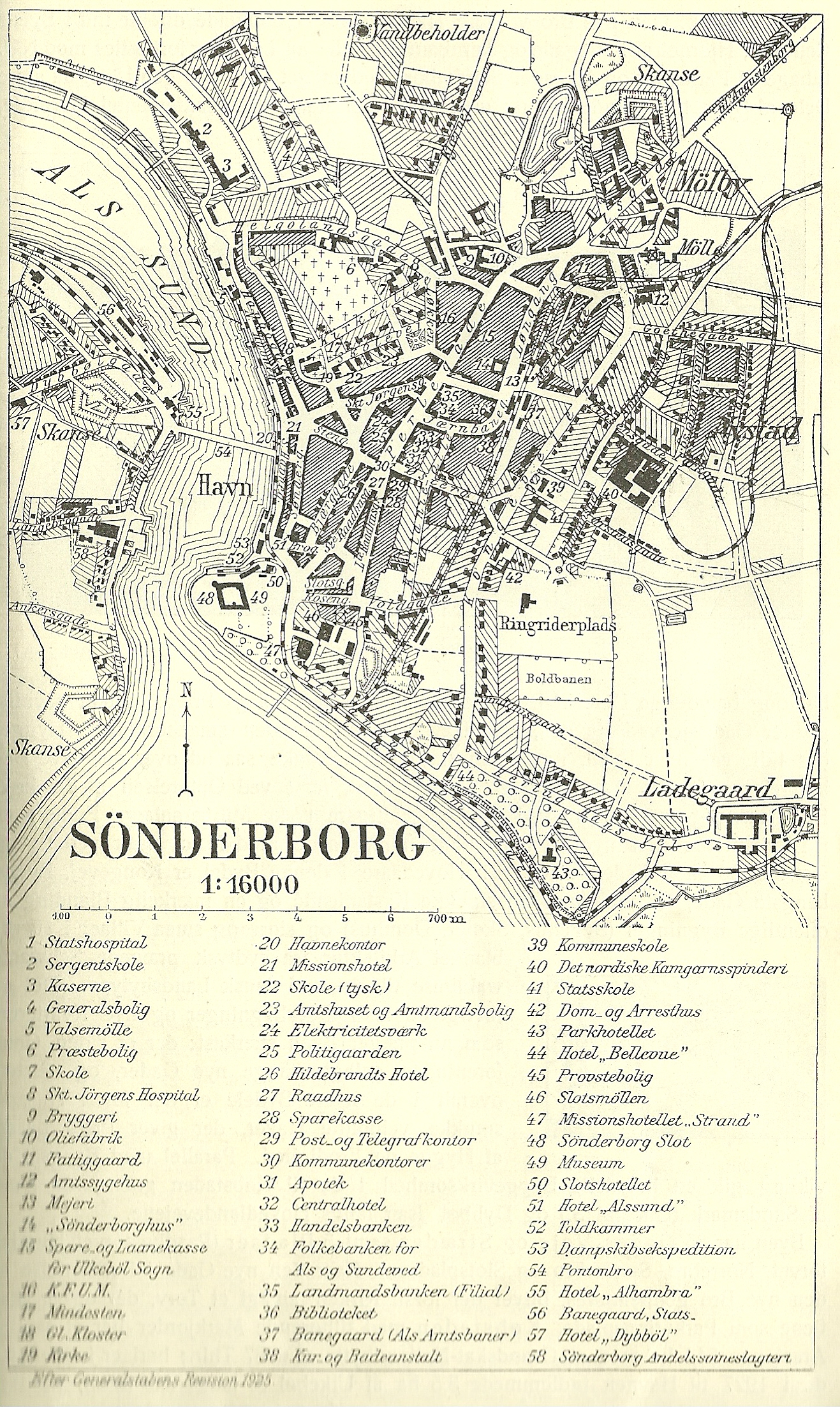 Map of Sonderborg 1925